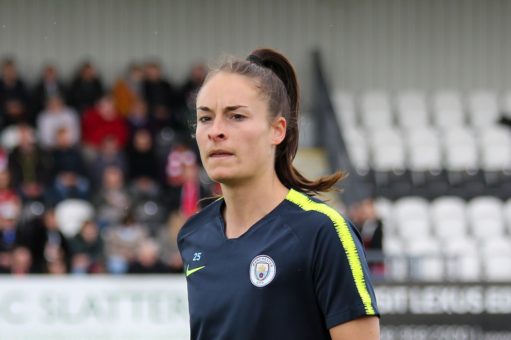 2018–19 FA WSL: Arsenal WFC v Manchester City WFC, 11 May 2019 – Tessa Wullaert of Manchester City before the start of the match